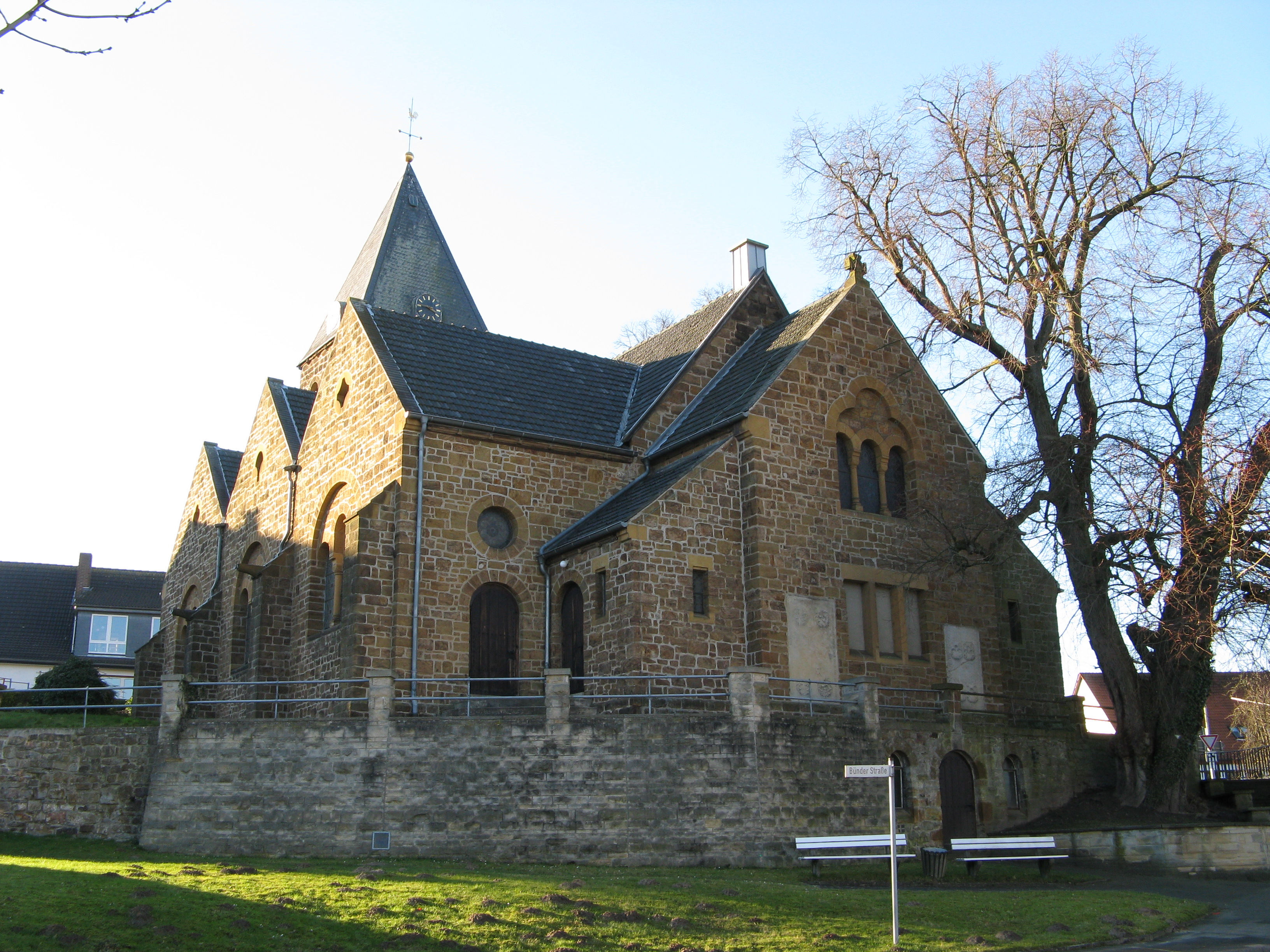 Church in Bad Holzhausen, town of Preußisch Oldendorf, Germany.